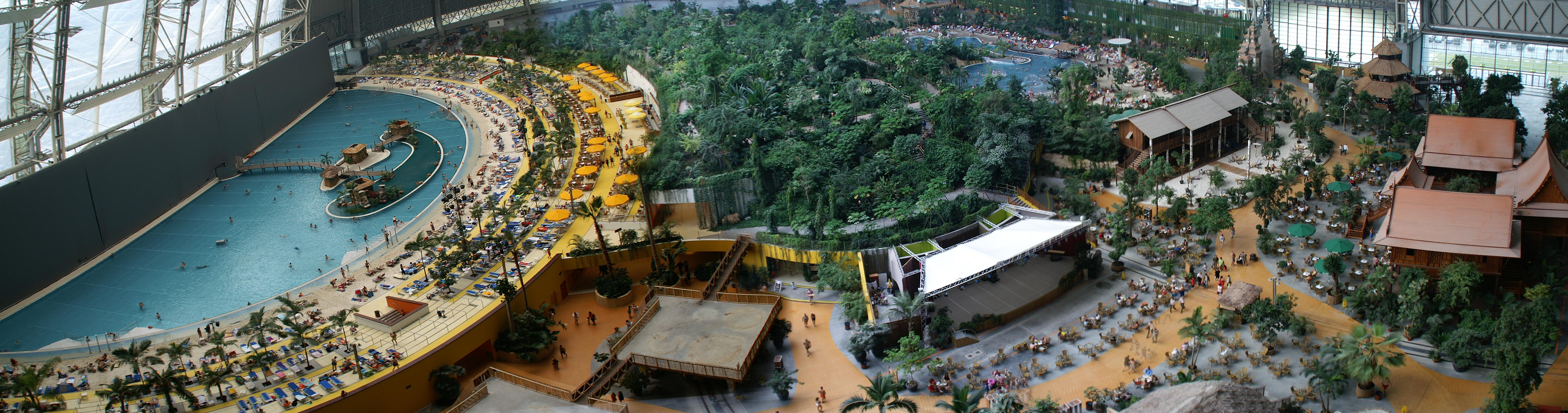 Tropical Islands - Draufsicht